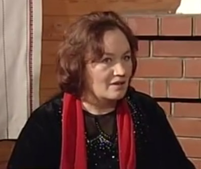 Natalia Kharasailo, Ukrainian poet